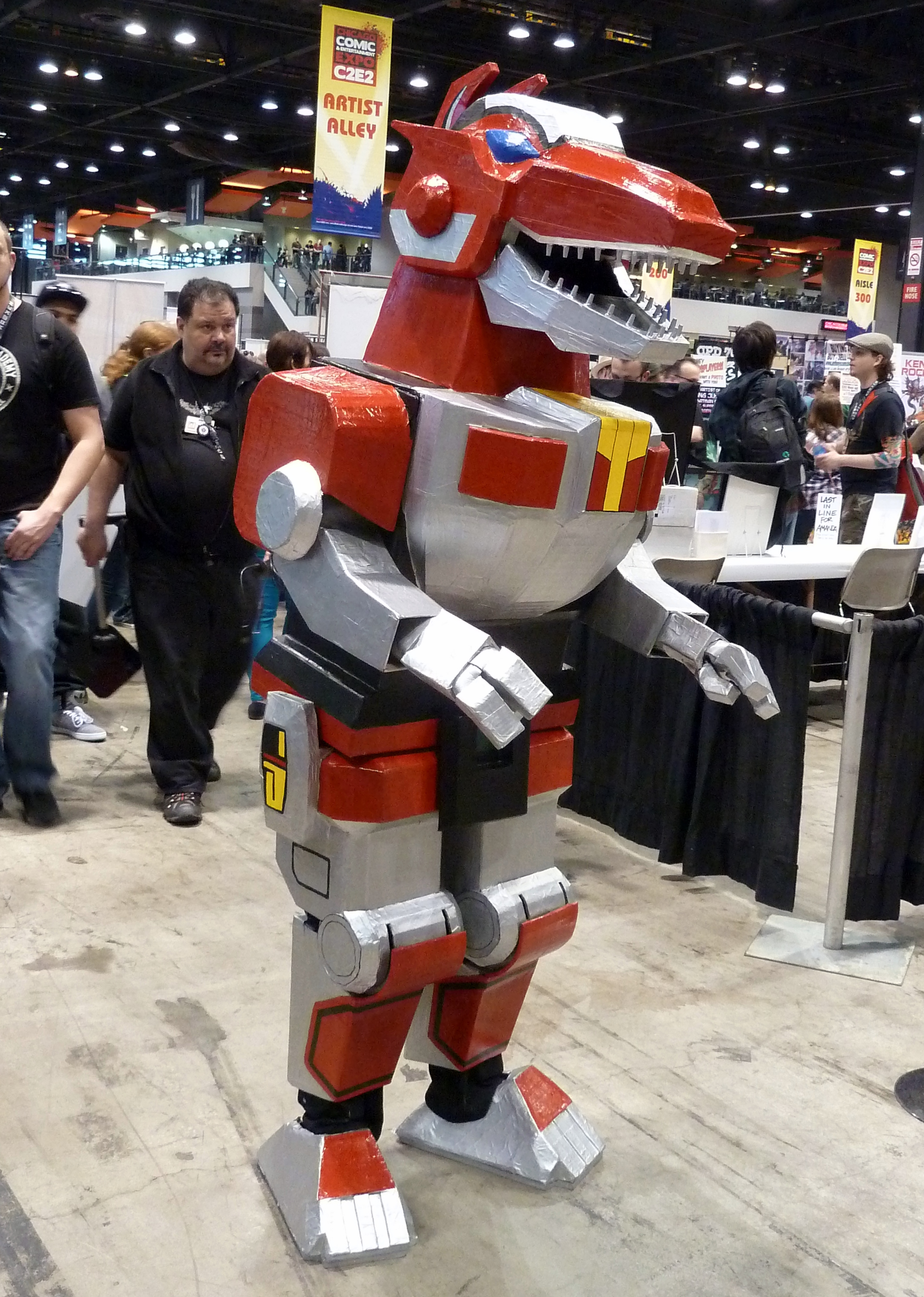 Cosplay of the Tyrannosaurs Dinozord (from Mighty Morphin Power Rangers) at the 2013 Chicago Comic & Entertainment Expo (C2E2). I was told this took 200 man hours to build. There's very few mobile parts.